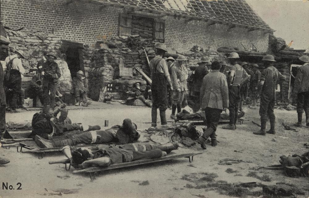 Creator: Unidentified. Location: Flanders, Belgium. Date: 7 June 1917 Description: The image shows approx. 2 dozen wounded men, 5 visible in stretchers, against the back drop of a brick building and sandbags. Number 2 in the 'Our Boys at the Front' series of postcards. From official photographs by special permission of the Department of Defence. Proceeds to the Australian Comforts Fund. (Printing on verso of postcard) A series of official war photographs of Australian service personnel in France and Belgium, which the Australian Comforts Fund turned into postcard to sell for fund raising purposes. Learn more about this image at the State Library of Queensland: Information about State Library of Queensland’s collection